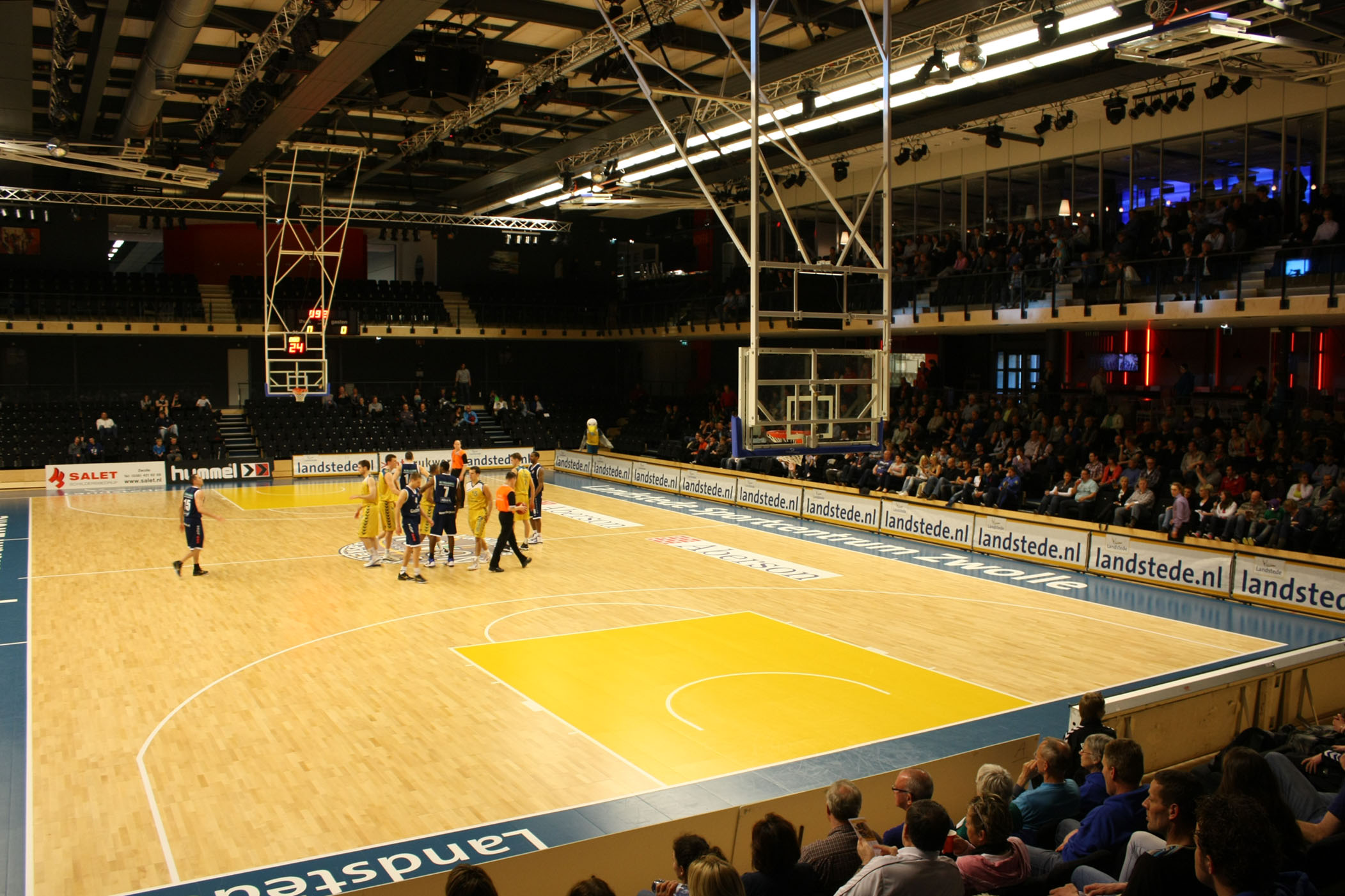 Basketball game between Landstede Basketbal and GasTerra Flames